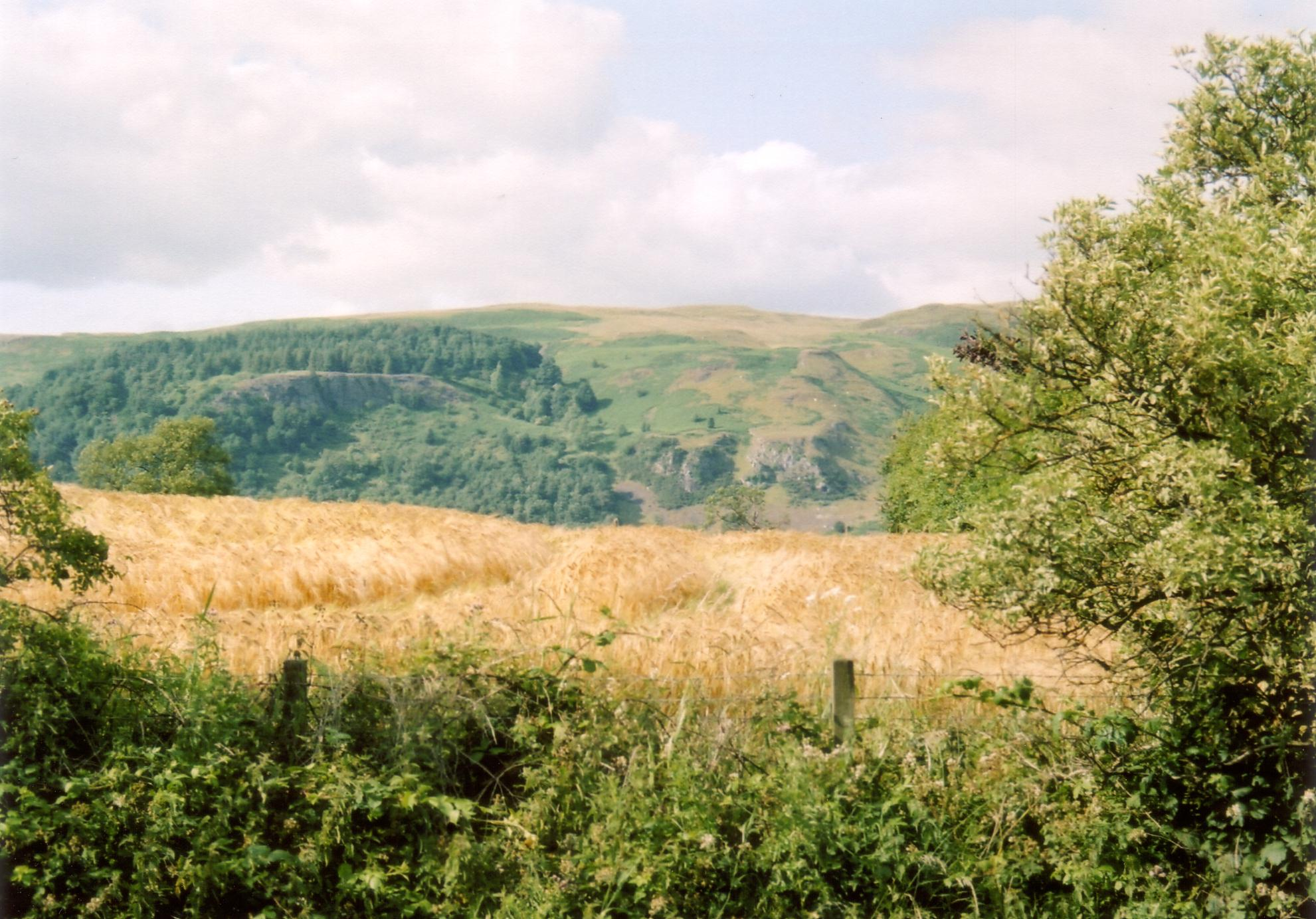 My own picture of the ochill hills from Alloa road traveling to tullibody in summer 2005.